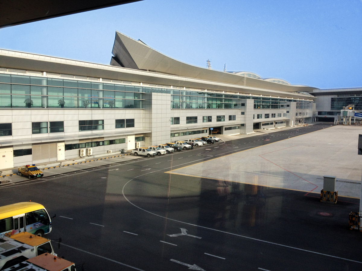 Back View of the terminal 2 from the waiting area of Changsha Airport